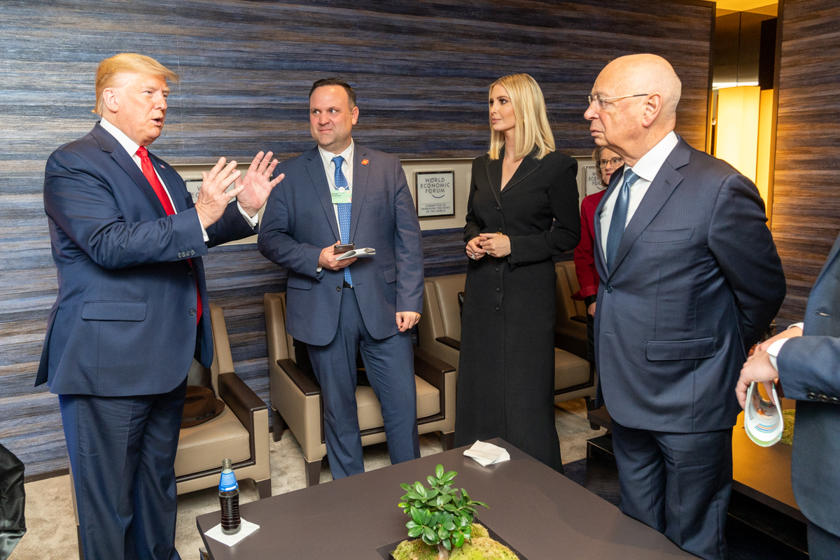 President Donald J. Trump, joined by Assistant to the President and Senior Advisor for Digital Strategy Dan Scavino and Assistant to the President and Advisor Ivanka Trump, meet with World Economic Forum Founder and Executive Chairman Klaus Schwab, following the President’s remarks at the 50th Annual World Economic Forum meeting Tuesday, Jan. 21, 2020, at the Davos Congress Centre in Davos, Switzerland. (Official White House Photo by Shealah Craighead)